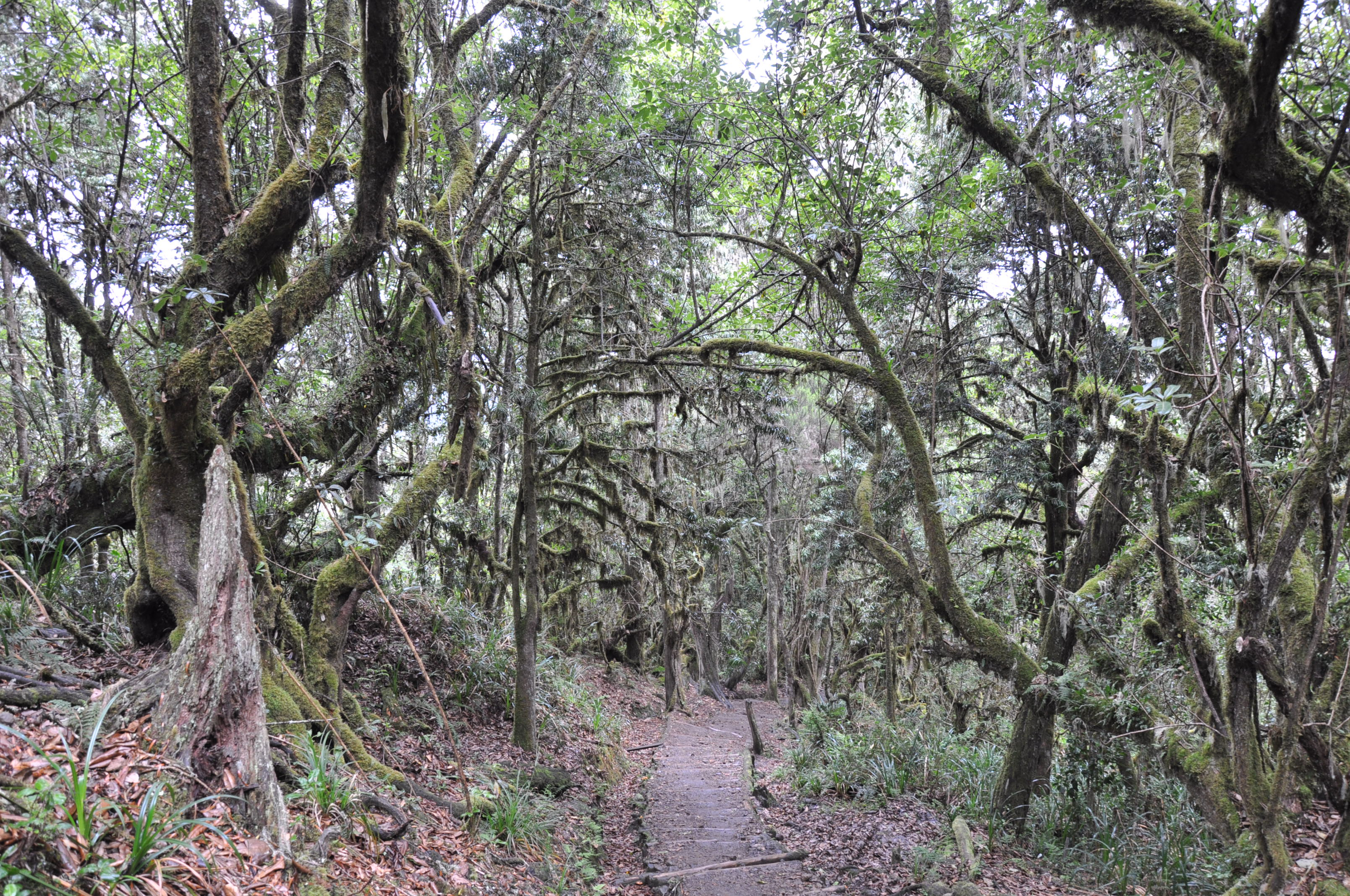 Because the Kilimanjaro is located close to the equator and the Indian Ocean and because it is so high, there are five major ecological zones. Each offers flora and fauna found in few other parts of Africa. Warm moist air from off the Indian Ocean is carried to the mountain and begins to rise over the slopes. The eastern and southeastern sides of the mountain are the wettest. But as the air rises, it is sucked dry, leaving higher areas arid. The summit air is cold enough to sustain glaciers and a snowcap MONTANE FOREST BIOME: Lichens, mosses and ferns growing on trees are the most striking contrast you'll see. The most obvious is usnea, which is known as the "Old man's beard". Blue monkeys are sometimes seen.